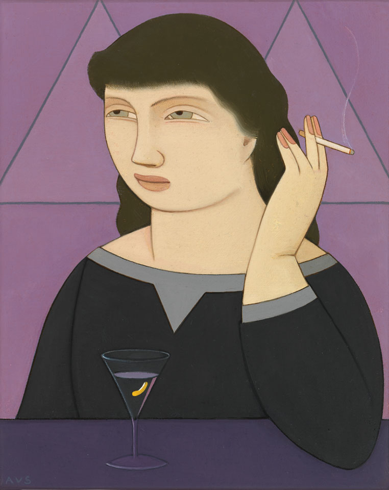 Andrew Stevovich, Woman Smoking: Eliza, 2009, oil on linen, 7 1/2" x 6", Private Collection